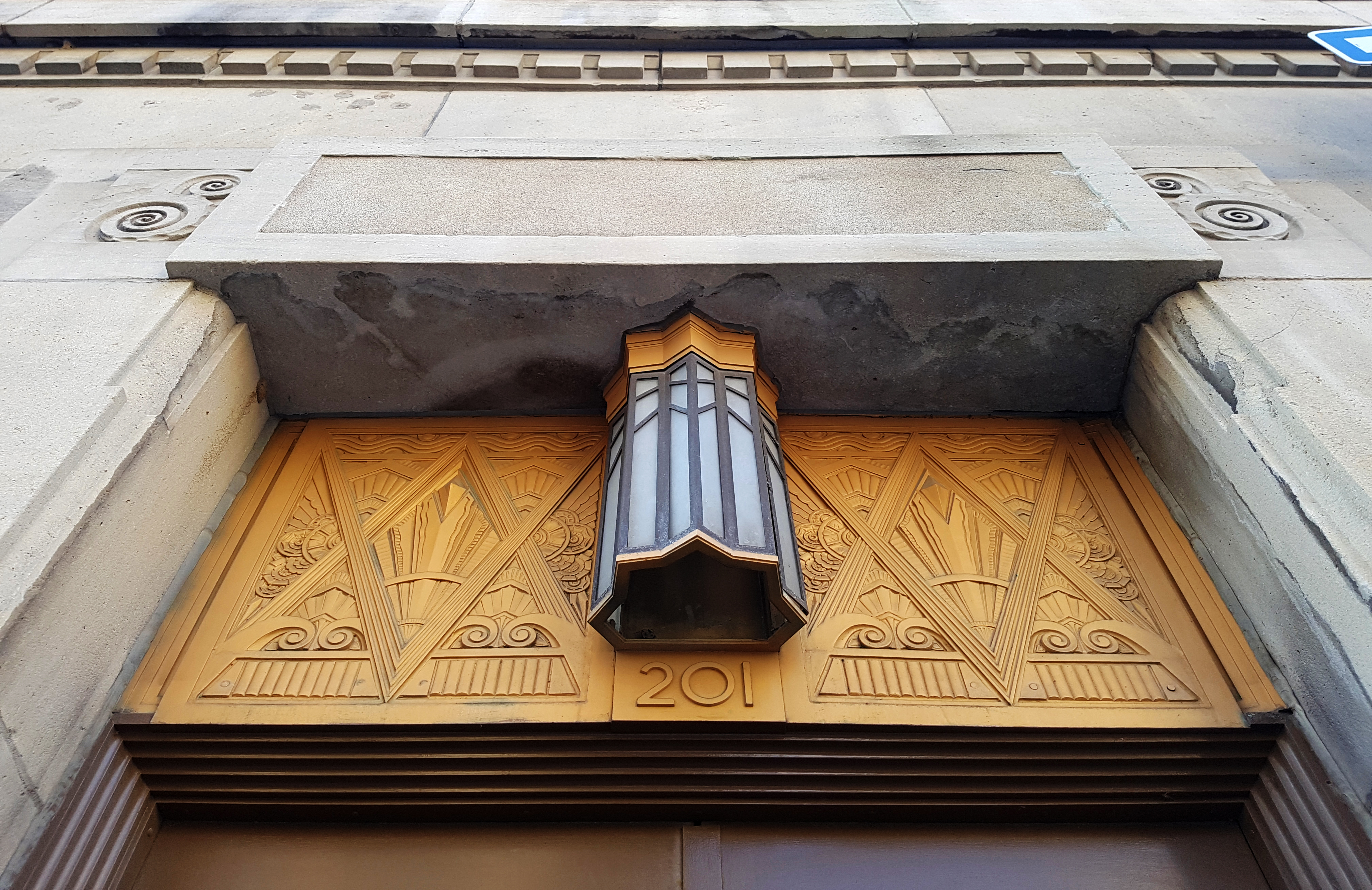 Édifice McDougall & Cowans, formerly knows as Anglo-American Trust Co. Building (1929-1930). 201 Notre-Dame Ouest, Montréal, 02-27-2017.